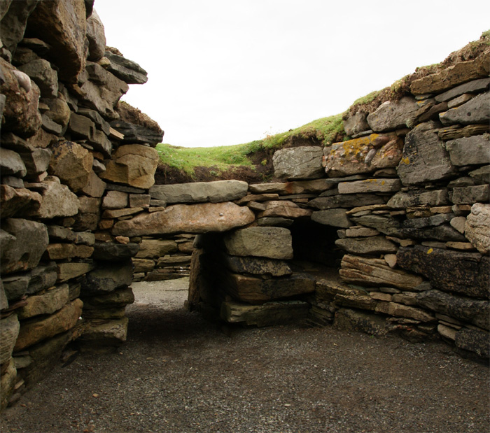 Ness of Burgi, Mainland (Shetland), Scotland - entrance from the north chamber from inside the chamber looking to the south